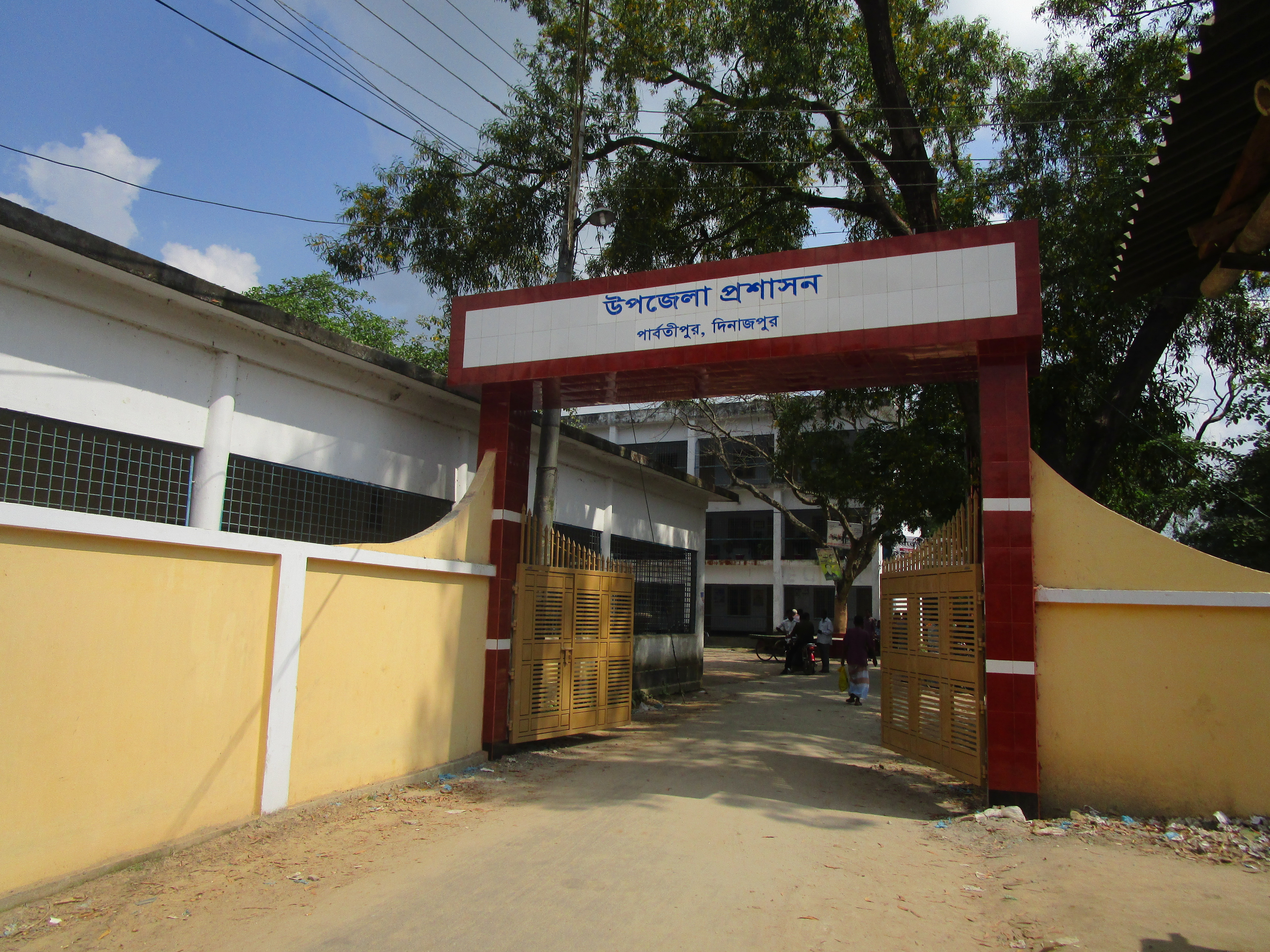 The main gate Parbatipur Upazila Parishad.